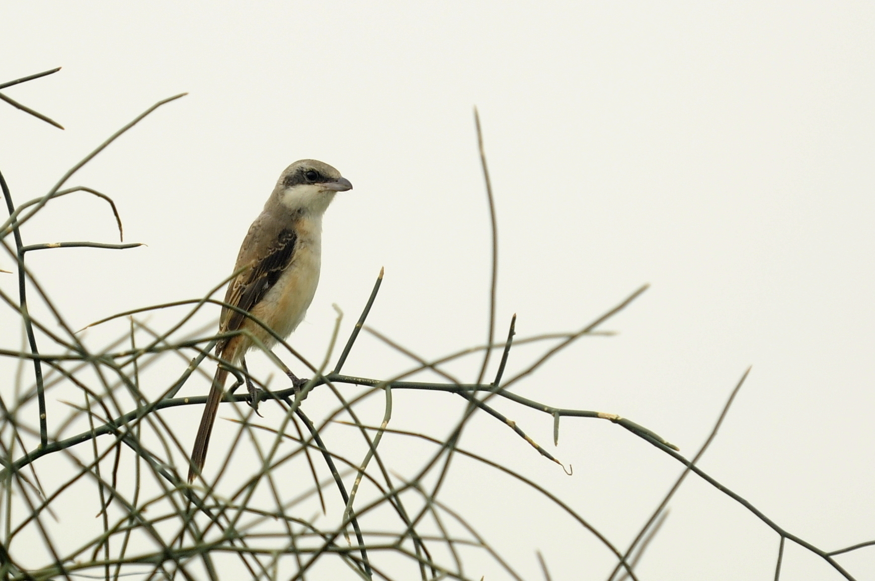 Long-tailed Shrike juvenile in Desert National Park, Rajasthan, India